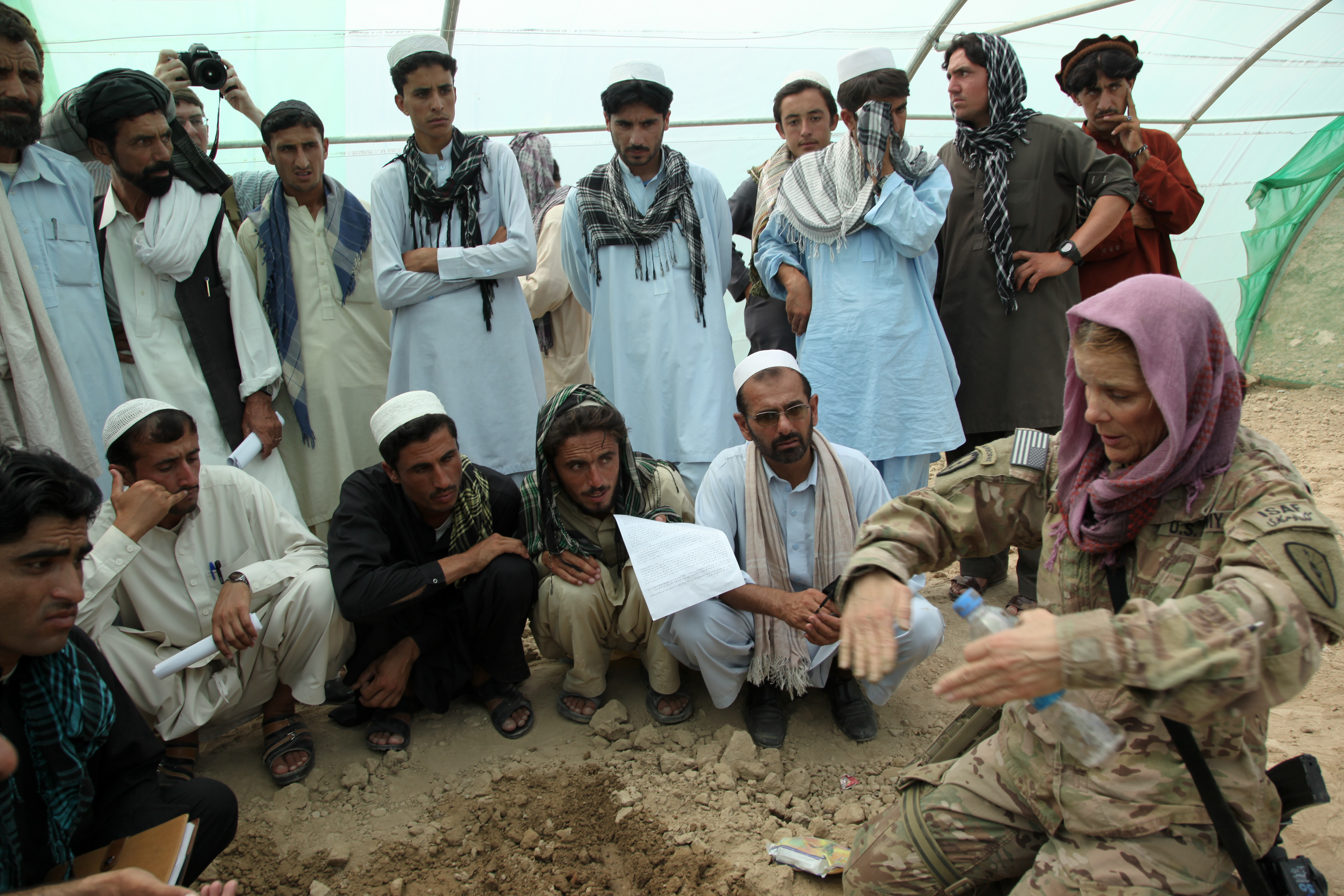 U.S. Army Sgt. 1st Class Diana Wellborne, assigned to the 5-19th Agribusiness Development Team, Indiana National Guard, attached to the Provincial Reconstruction Team Khost, Task Force 4-25, discusses how a greenhouse is beneficial to the plants inside at a high school near the Gorbuz district center, Khost province, Afghanistan, Aug. 13, 2012. Wellborne gave a class to local Future Farmers of Afghanistan on caring for crops in a greenhouse.